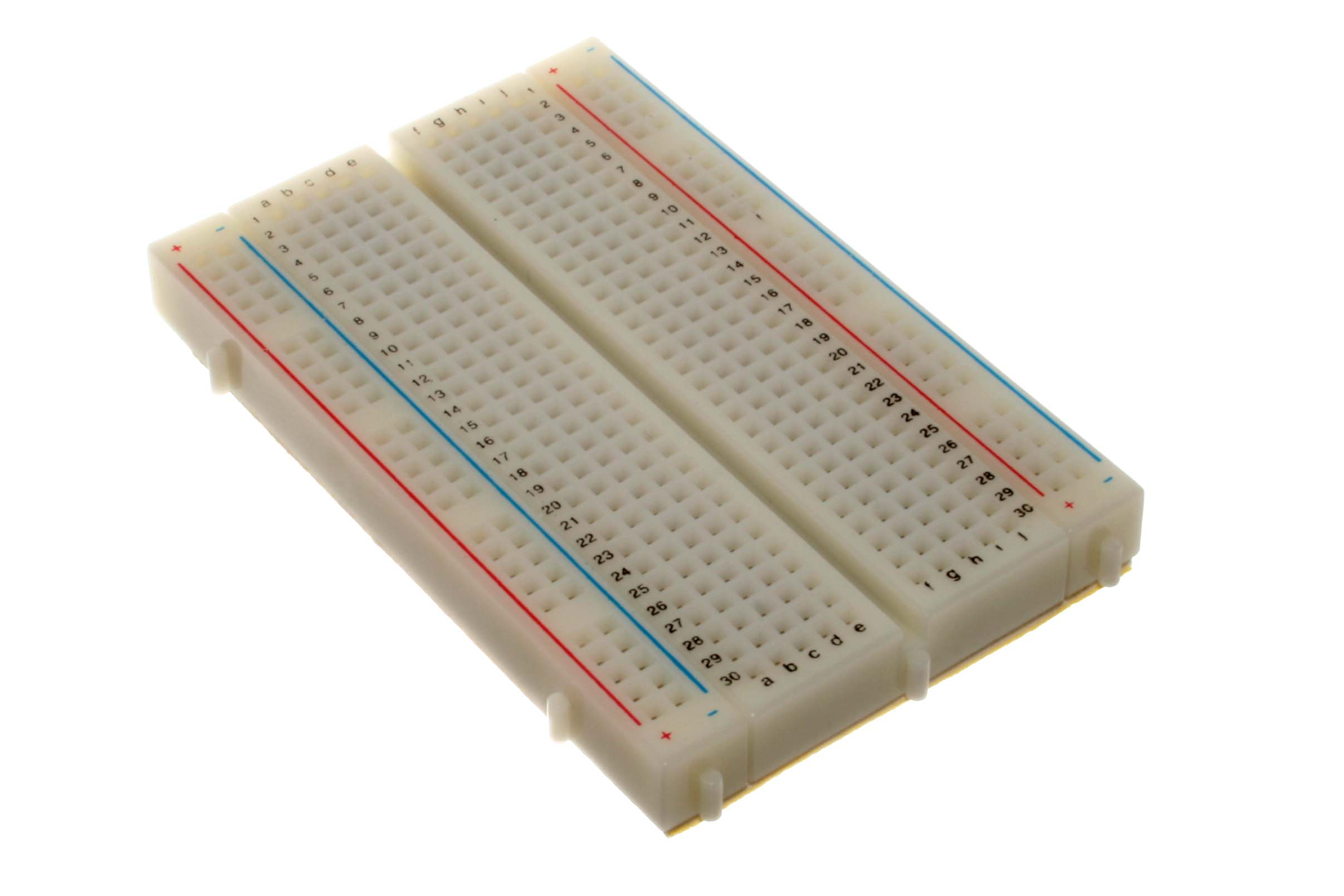 400 points (half size) breadboard.